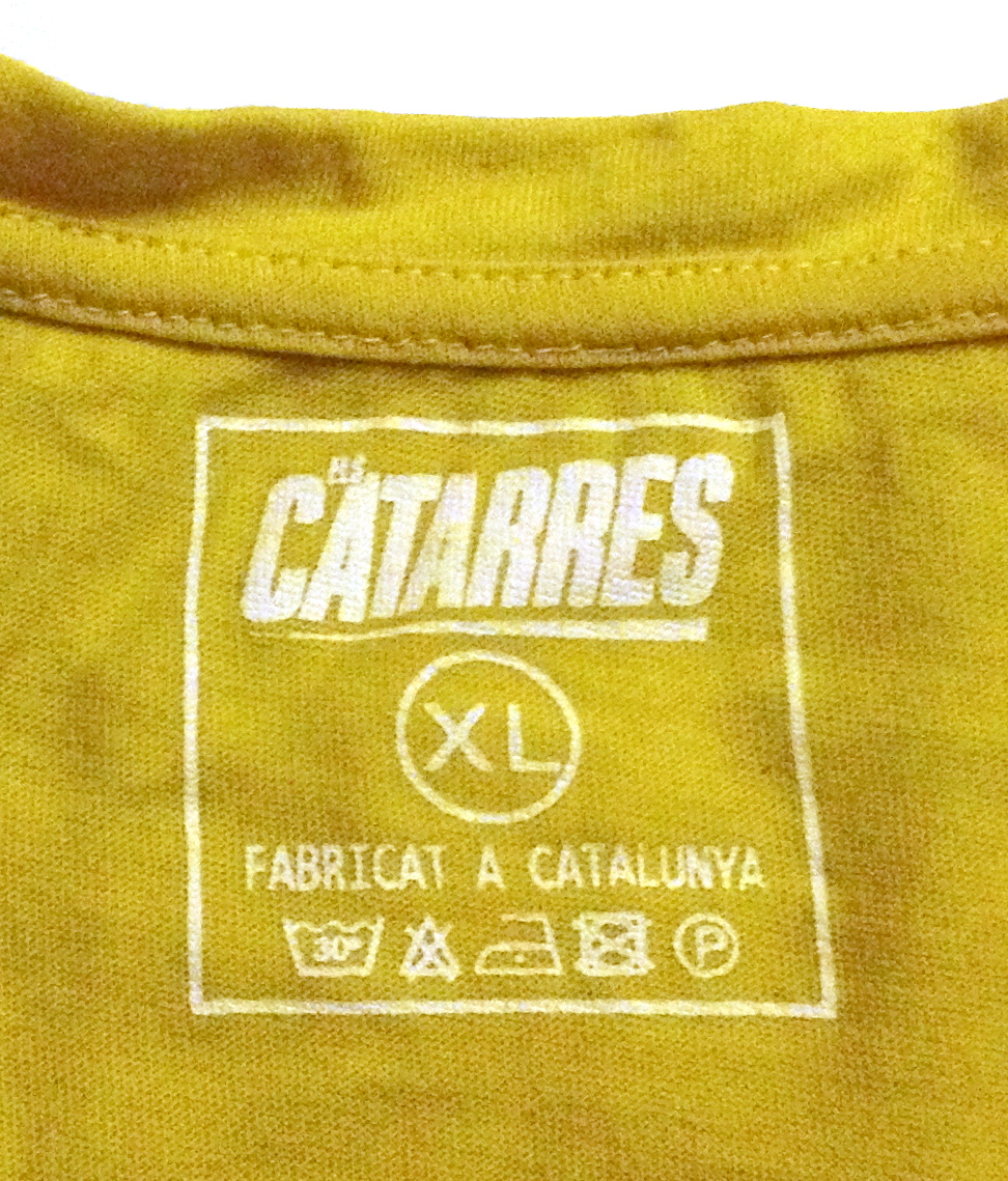 Laundry tag "Fabricat a Catalunya" (Els Catarres). On a yellow T-shirt.